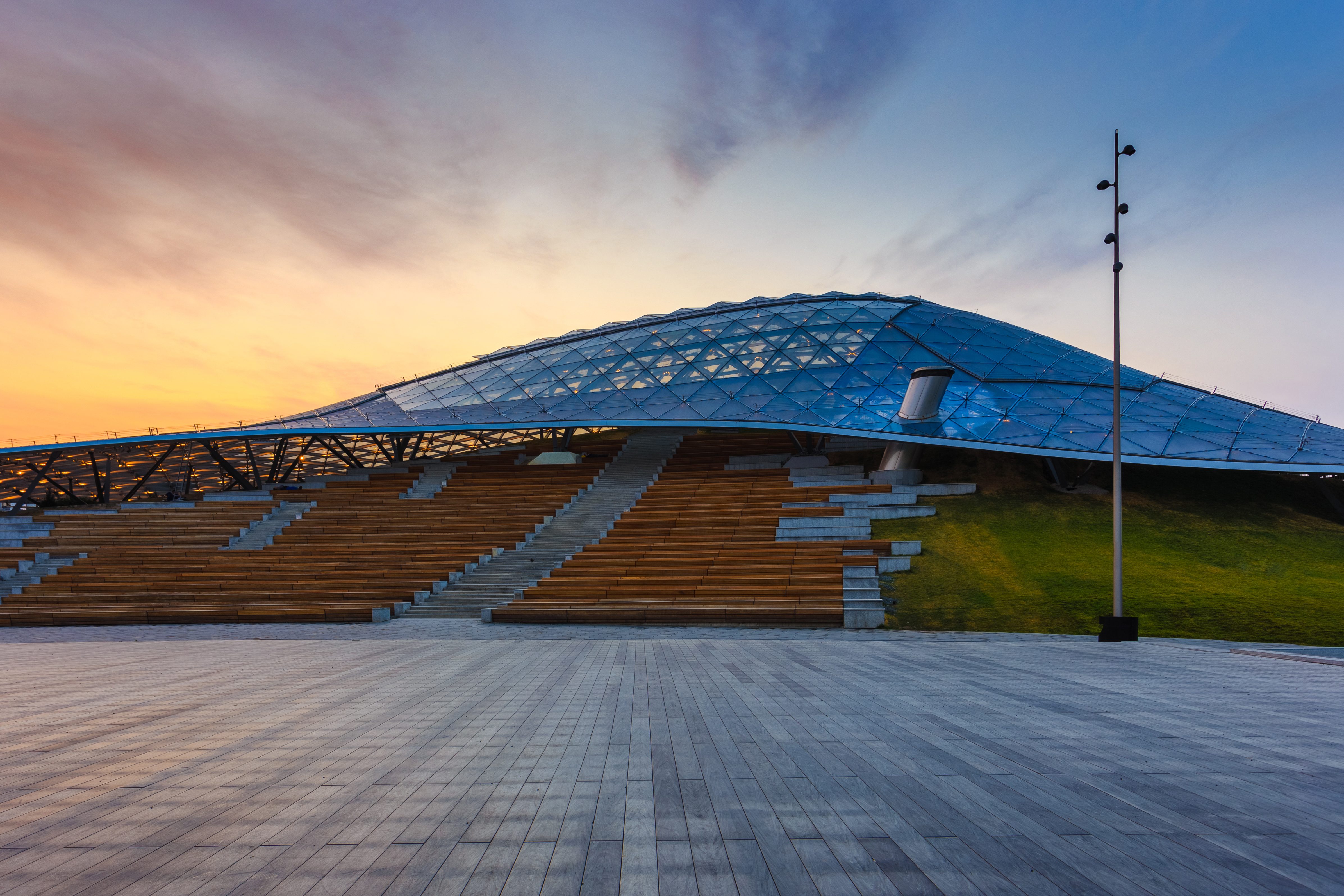 The Grand Amphitheatre, covered with Glass Crust dome in Zaryadye park, Moscow, Russia at sunrise. Designed by Diller Scofidio + Renfro, built in 2017.